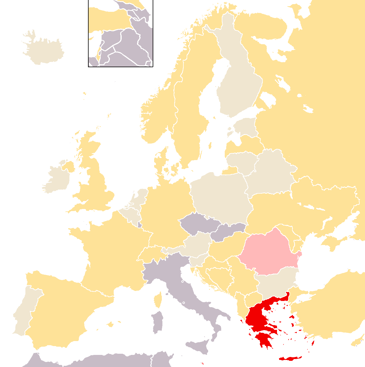 Map of Eurovision 2005